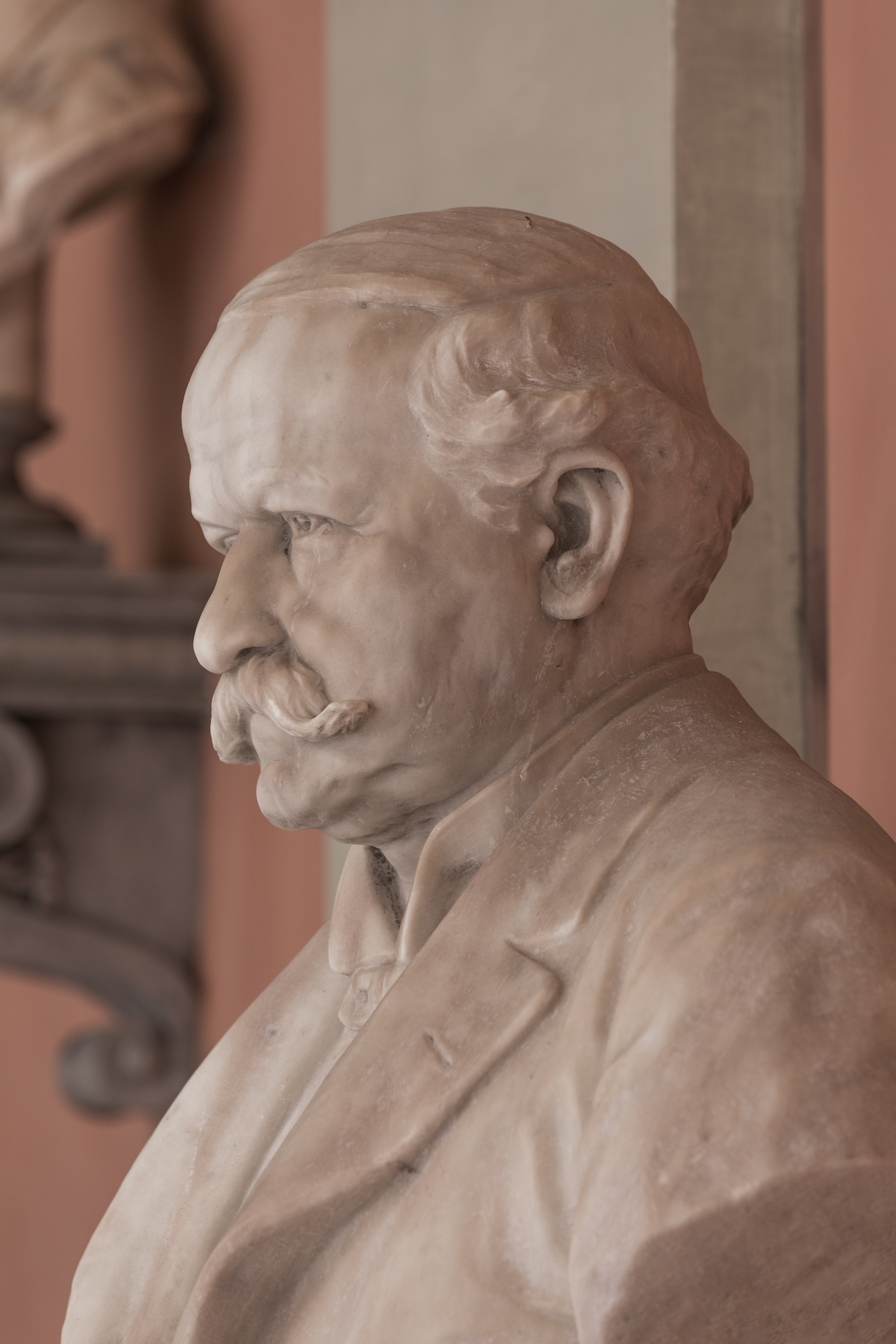 Wilhelm Emil Wahlberg (1824-1901), bust(white marble) in the Arkadenhof of the University of Vienna, (Maisel# 9). Artist: Melanie Horsetzky von Hornthal (1852-1931), unveiled 1908